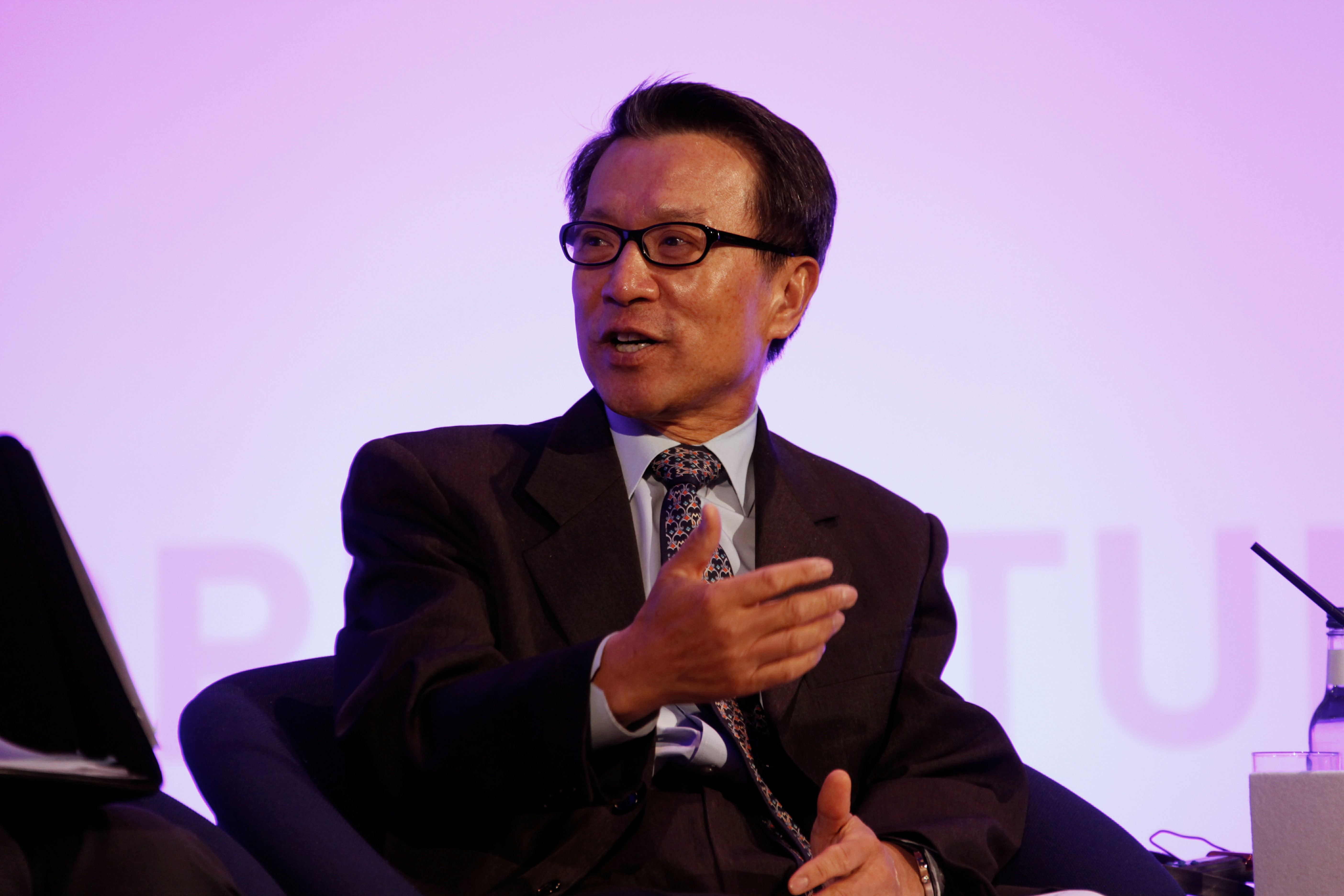 London, 11th July 2012. Mr Kyu Ho Choo, Korean Ambassador to Britain, speaking at the London Summit on Family Planning. He announced that Korea would double its support for family planning from $5.4m a year to $10.8m per year, from 2013. British aid will save the life of a woman or girl in the developing world every two hours for the next eight years, Prime Minister David Cameron said today at the London Summit on Family Planning. The British Government and co-host the The Bill and Melinda Gates Foundation brought together representatives from governments, the private sector, donors and civil society groups who pledged to halve the number of girls and women in developing countries who want - but lack access to - modern contraception. Britain’s support, which comes from the existing aid budget, will provide an additional 24 million girls and women with family planning services between now and 2020. This will prevent the deaths of around 42,000 girls and women for whom an unintended pregnancy carries the risk of fatal consequences. Developing countries at the summit made commitments to strengthen and promote women’s rights to family planning and increase access to information, services and supplies. Picture: Russell Watkins/Department for International Development